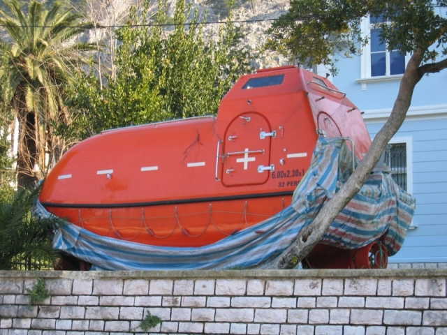 Faculty of Marine Studies (University of Montenegro) - submarine